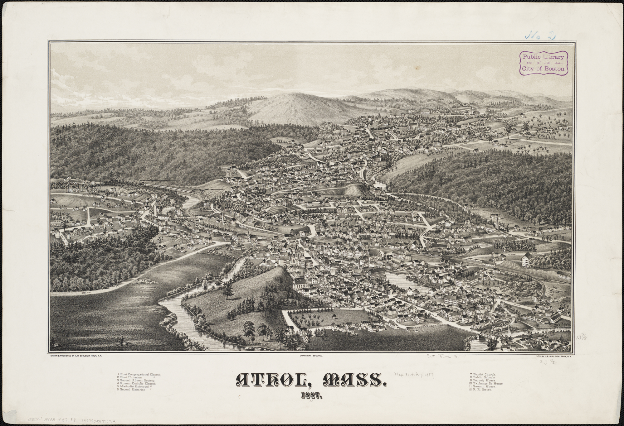 Zoom into this map at . Author: Burleigh, L. R. Publisher: L.R. Burleigh Date: [1887] Location: Athol (Mass.) Scale: Not drawn to scale. Call Number: G3764.A8A3 1887.B8